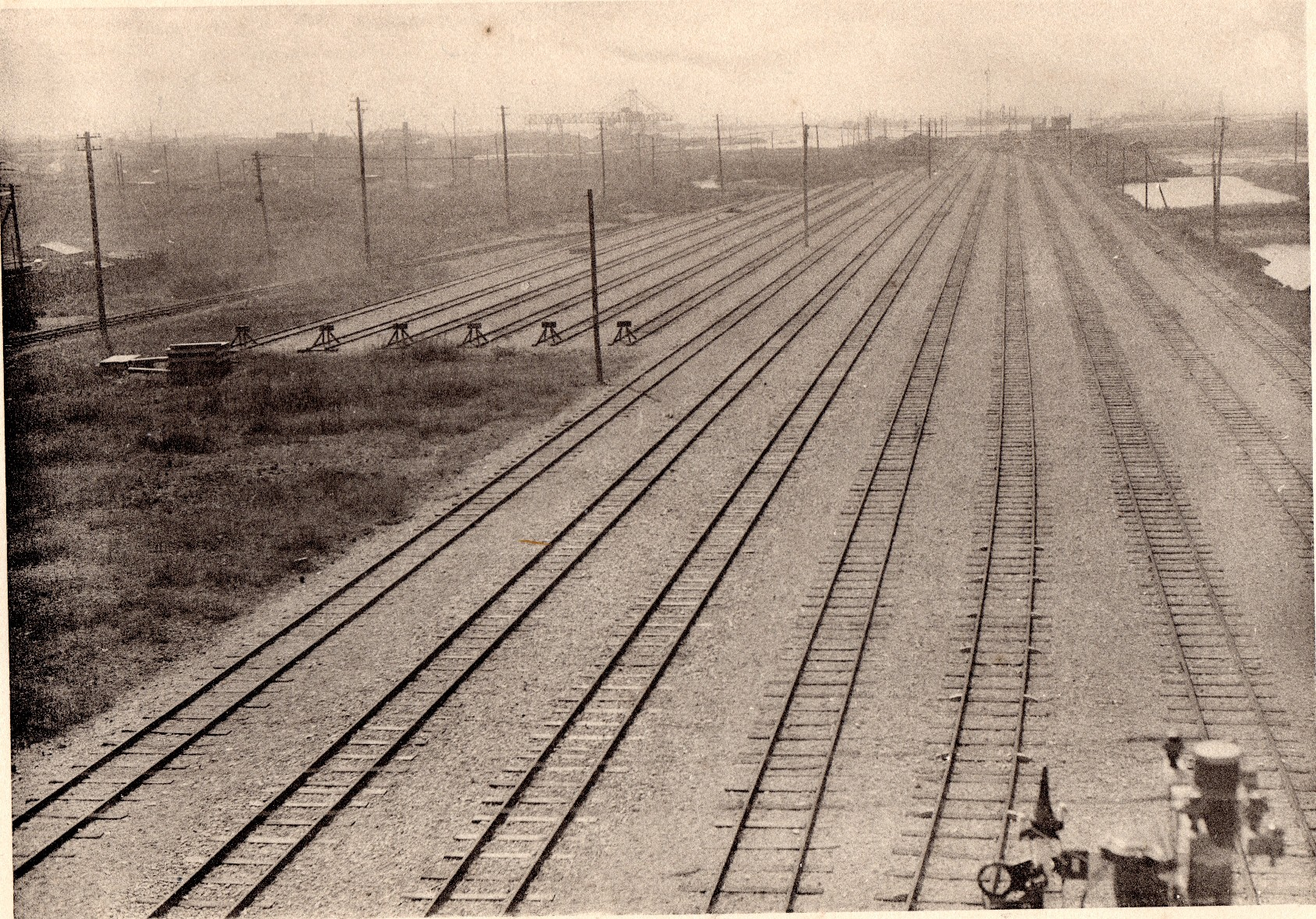 View of Naniwa freight station, Osaka, Japan around 1928.